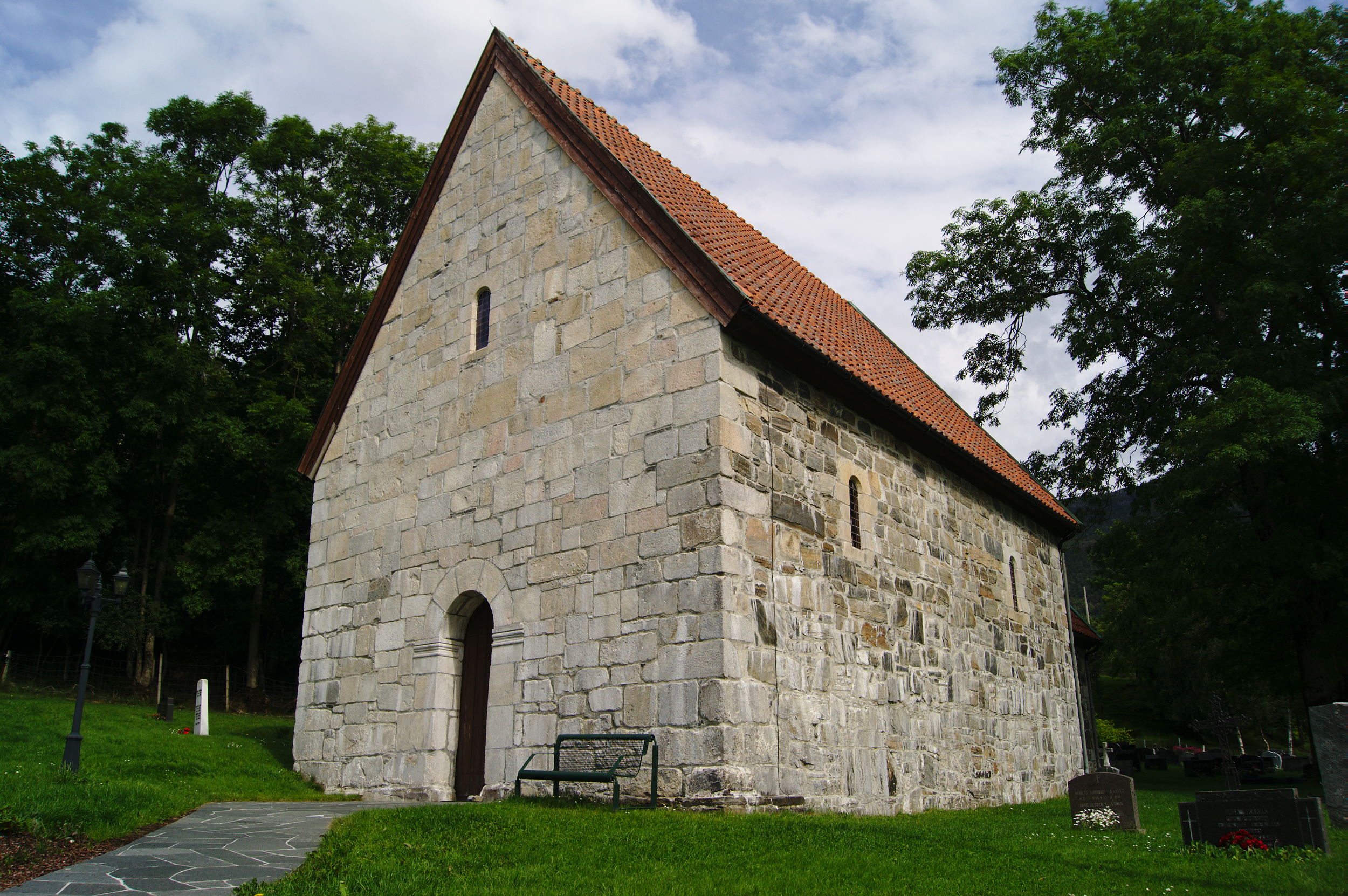 The Church "Sankt Jetmund" is a church built in 1155 in Åheim in the municipality of Vanylven.